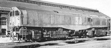 Leader locomotive at Brighton works.